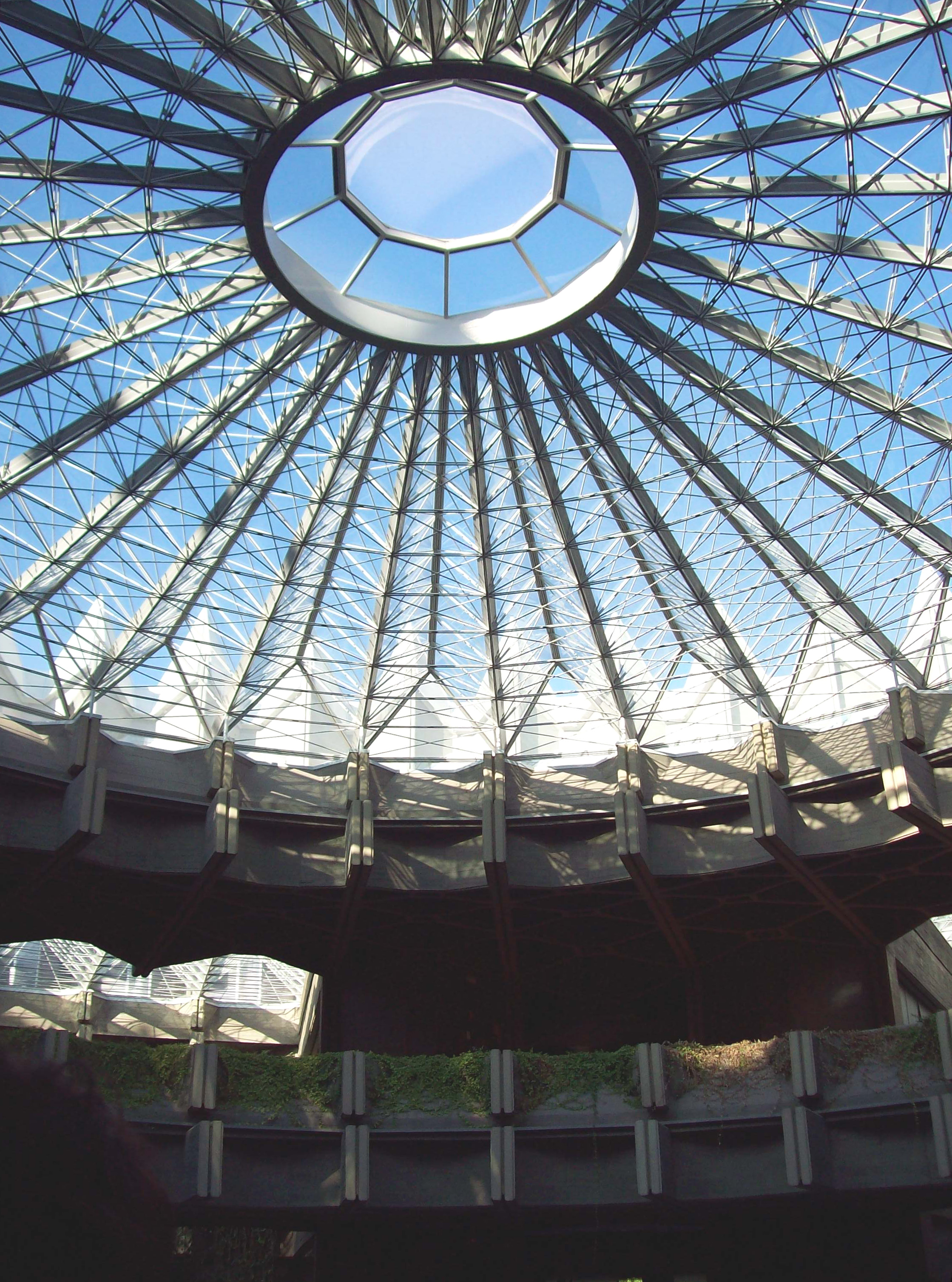 Interior of the headquarters of the Cultural Heritage Institute of Spain, in Madrid.